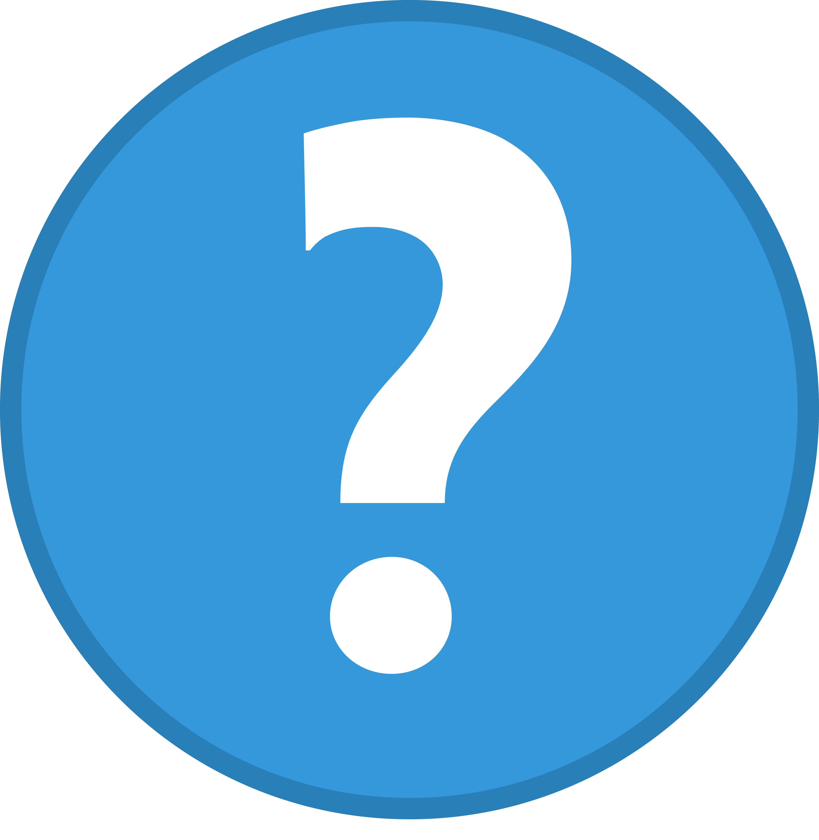 A question mark icon.